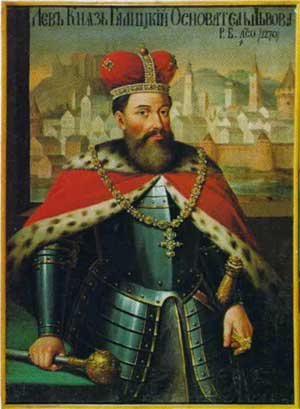 Lev, Ukrainian prince of Lviv